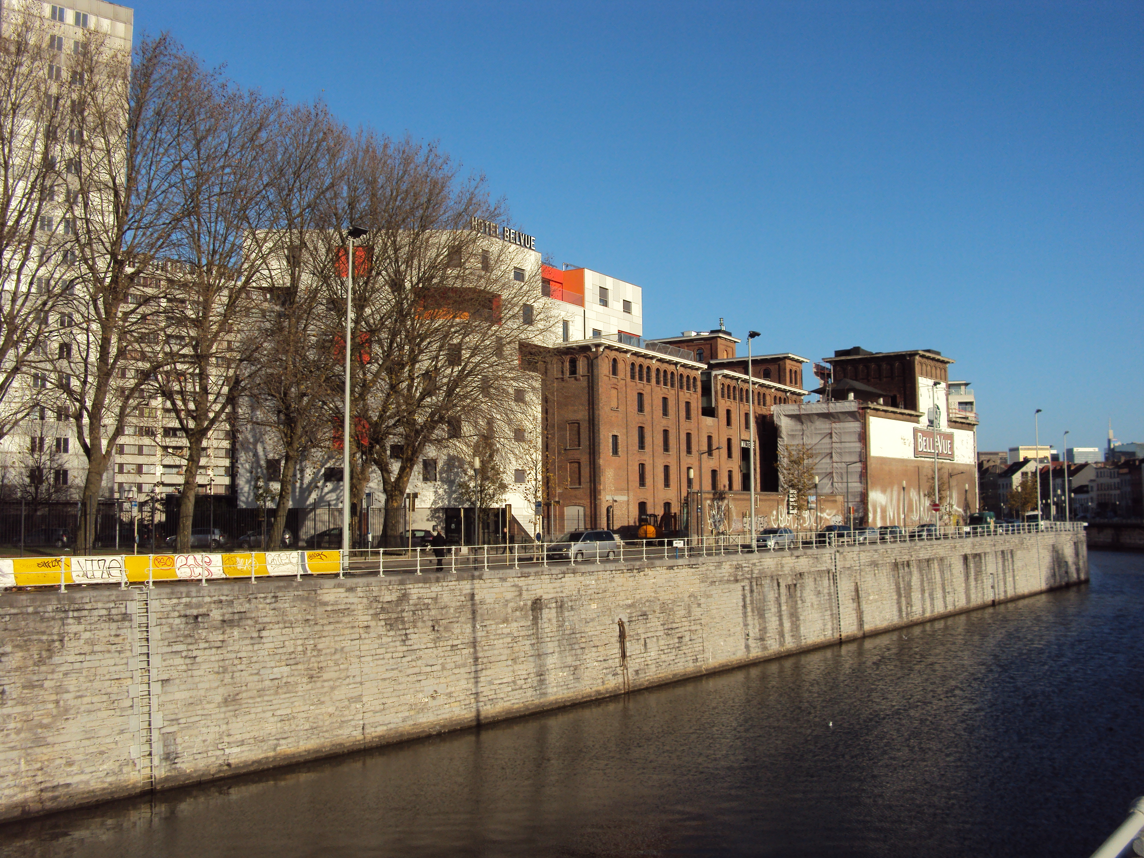 Brussels–Charleroi Canal with the western bank, which is the eastern limit of Sint-Jans-Molenbeek, seen from South, with the ancient Bellevue brewery